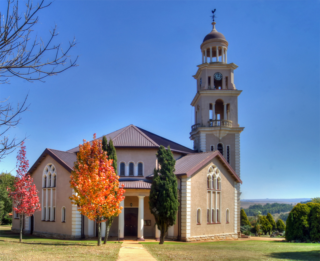 NG Church, Machadodorp This media shows a South African Protected Site with SAHRA file reference 9/1/111/1234.